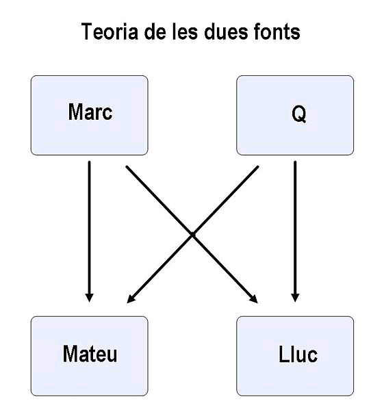 The Two Source hypothesis